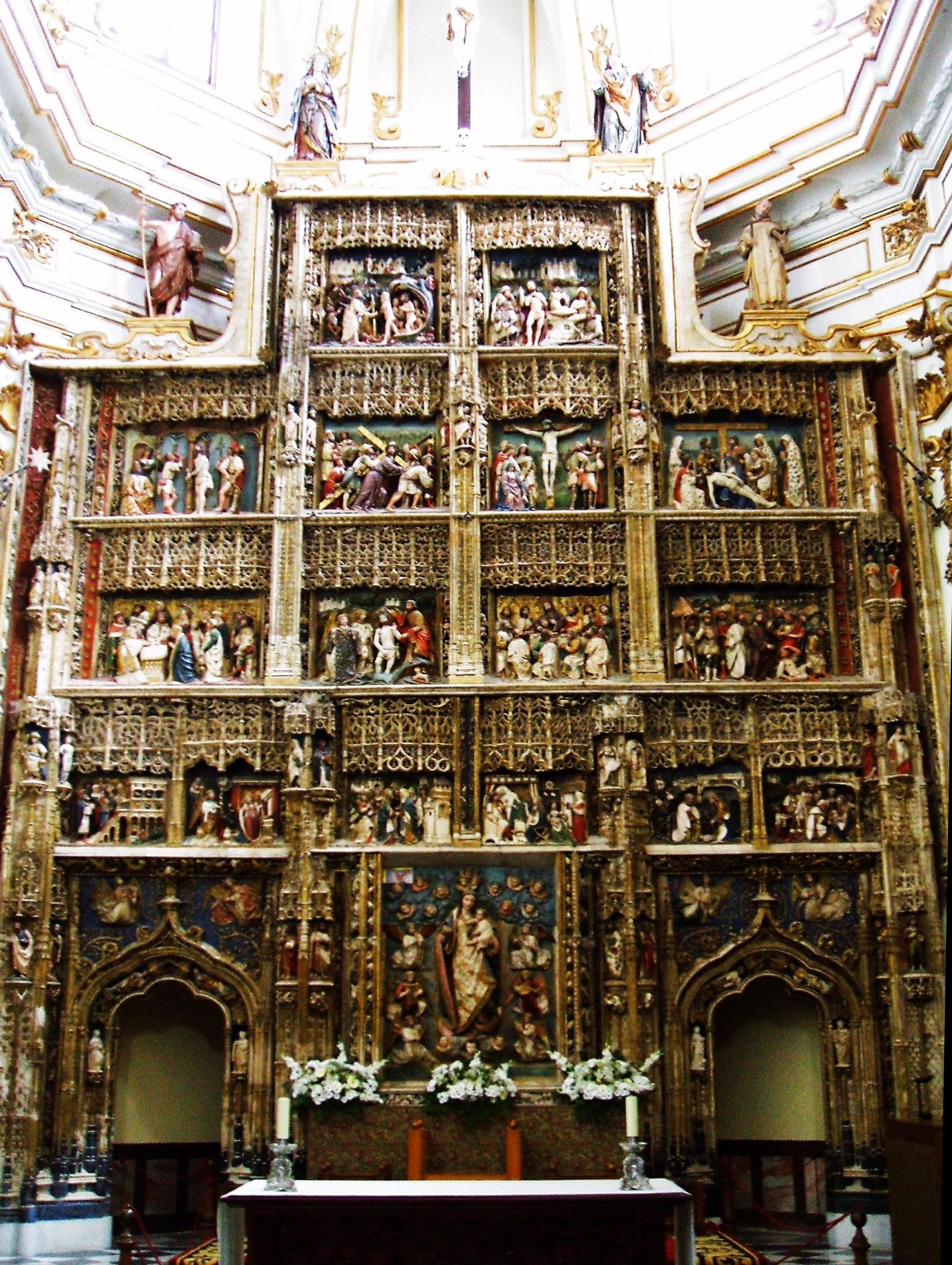 Retablo mayor gótico de la iglesia del monasterio de Santa María del Paular, Rascafría (Madrid, España)